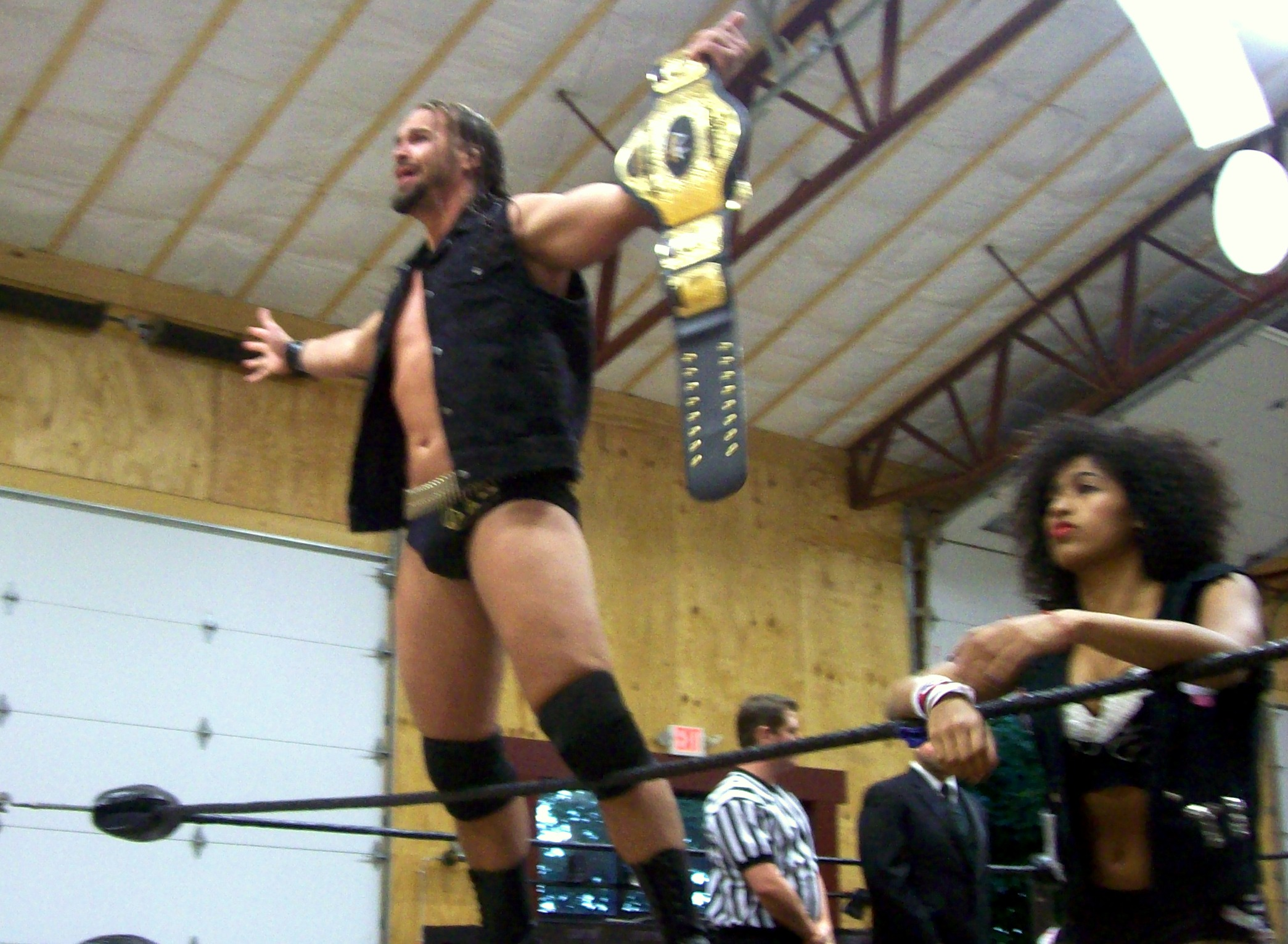 Matt Justice and Marti Belle at Prime Wrestling show in Lisbon, Ohio.